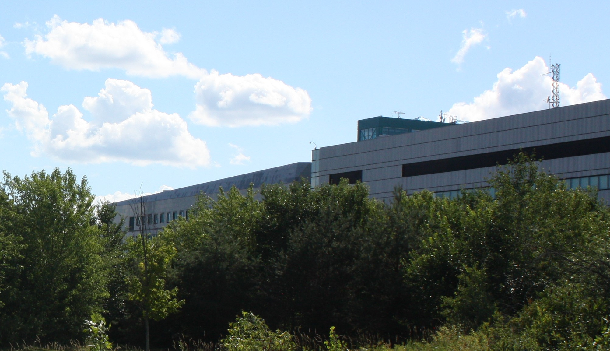 CSIS Ottawa Building Ogilvie Canadian Security Intelligence Service